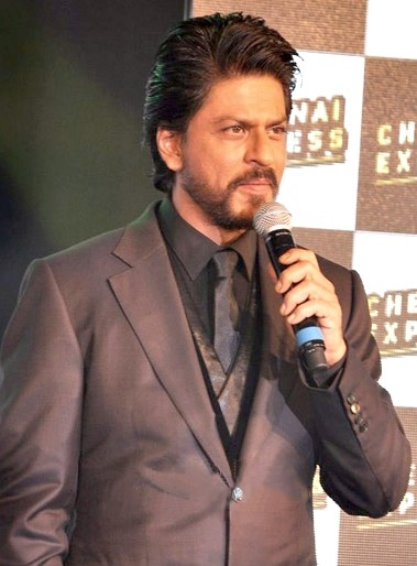 Shahrukh Khan at the Audio release of Chennai Express. July 2013.